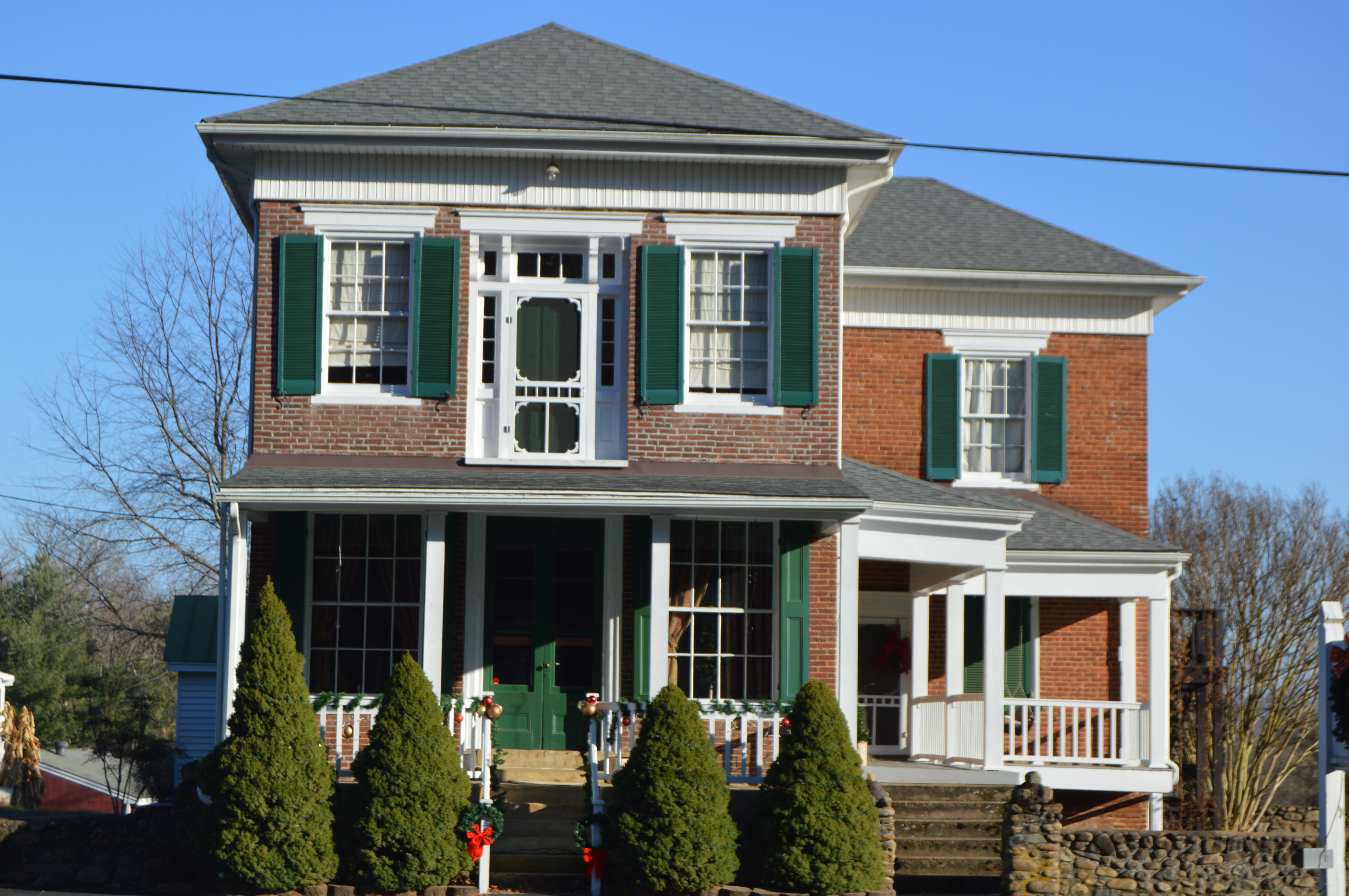 Front of the Hite Store, located at 2816 Lowesville Road at Lowesville in Amherst County, Virginia, United States. Built in 1869, it is listed on the National Register of Historic Places.